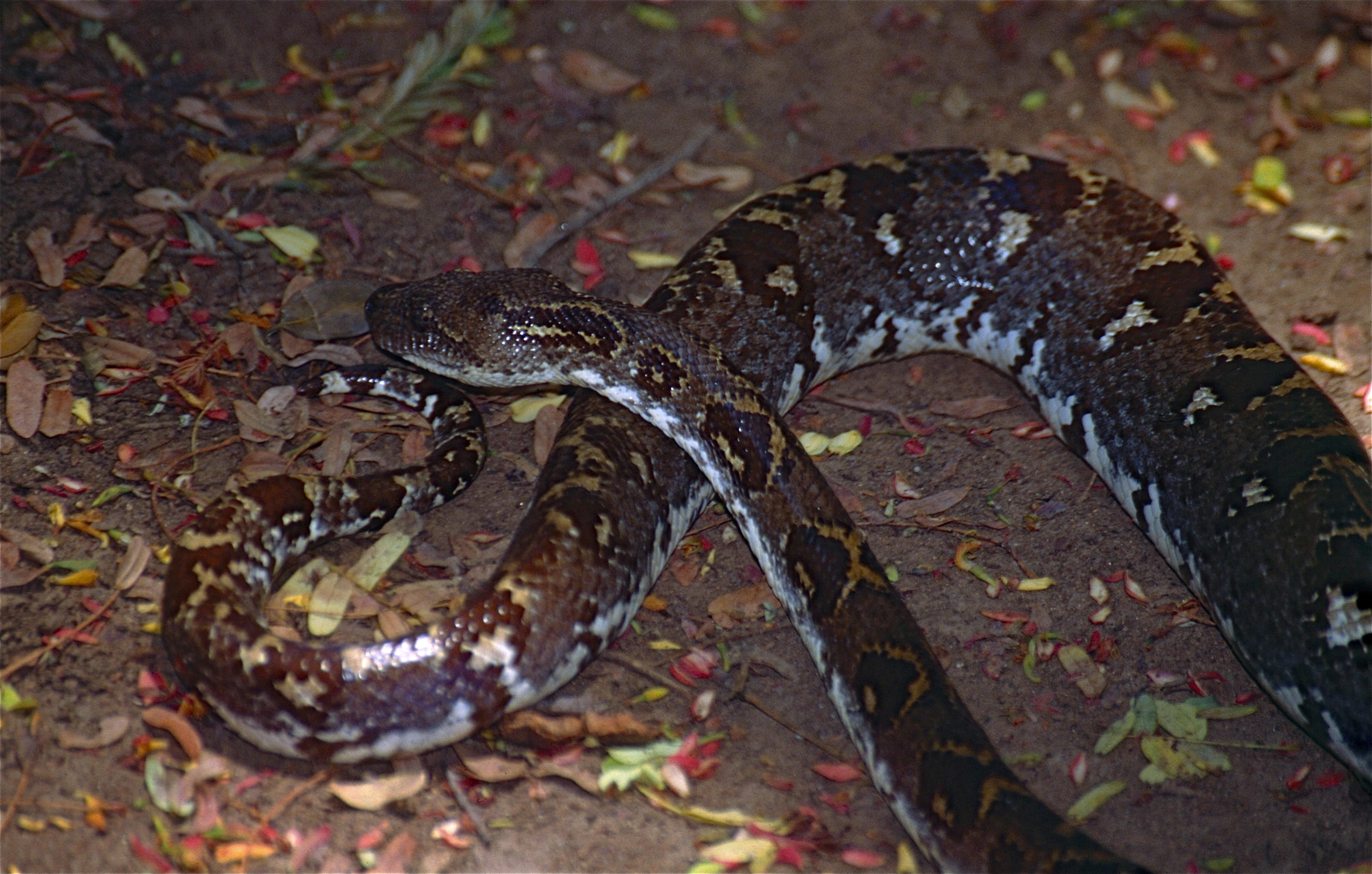 Sanzinia volontanyRéserve de Berenty, Amboasary Sud, MADAGASCAR Scanned Slide from 1998